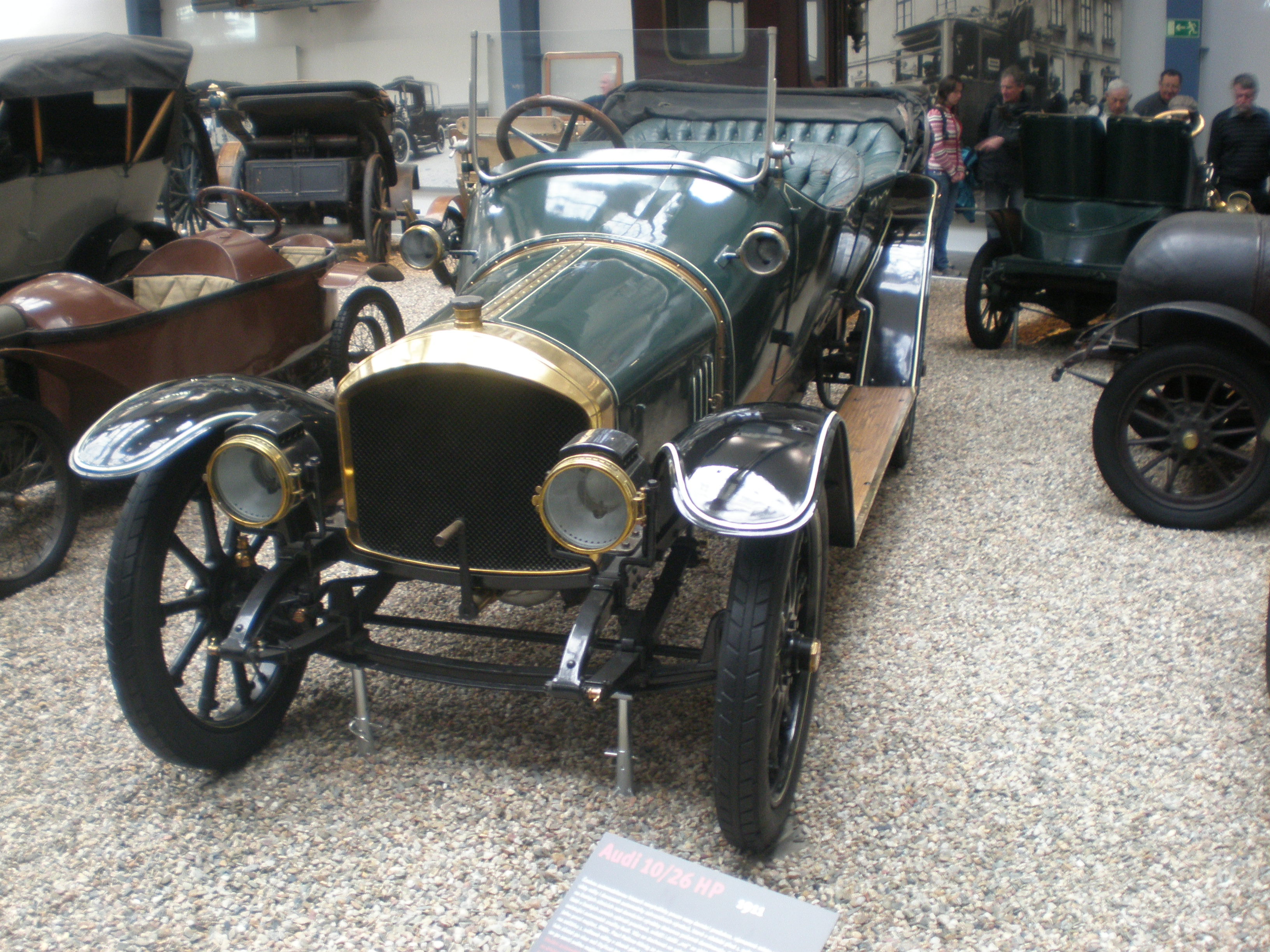 Audi 10/26 PS, the oldest known preserved Audi in the world, National Technical Museum Prague